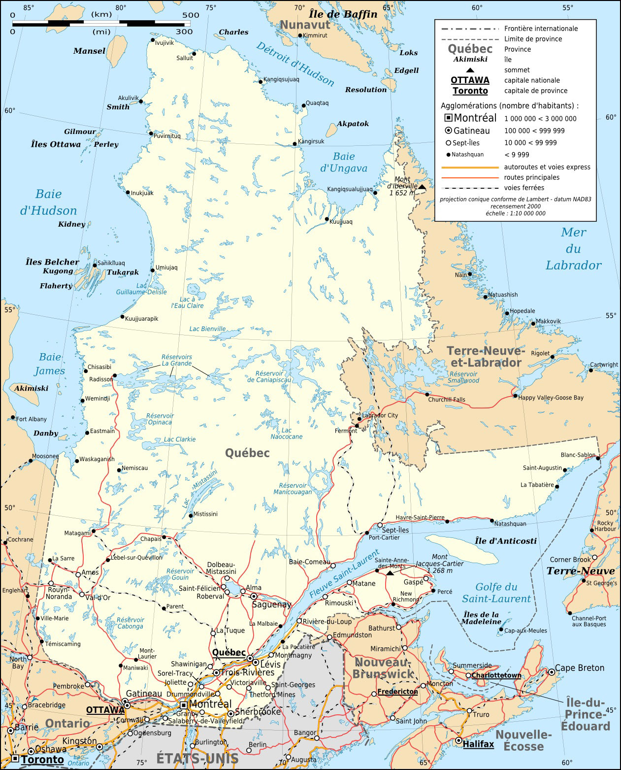 Map in French of Quebec, Canada, with major roads and railroads and 2000' census cities.